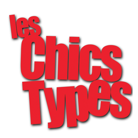 Logo of Les Chics Types